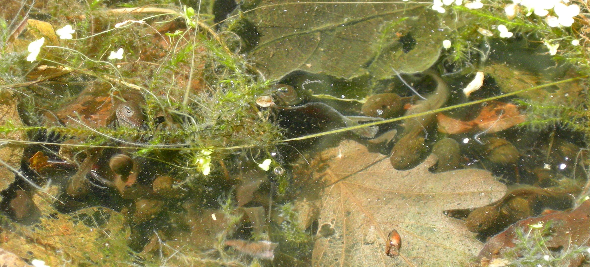 Tadpoles in pond at Bracken Hall Countryside Centre and Museum, Baildon, West Yorkshire, England.